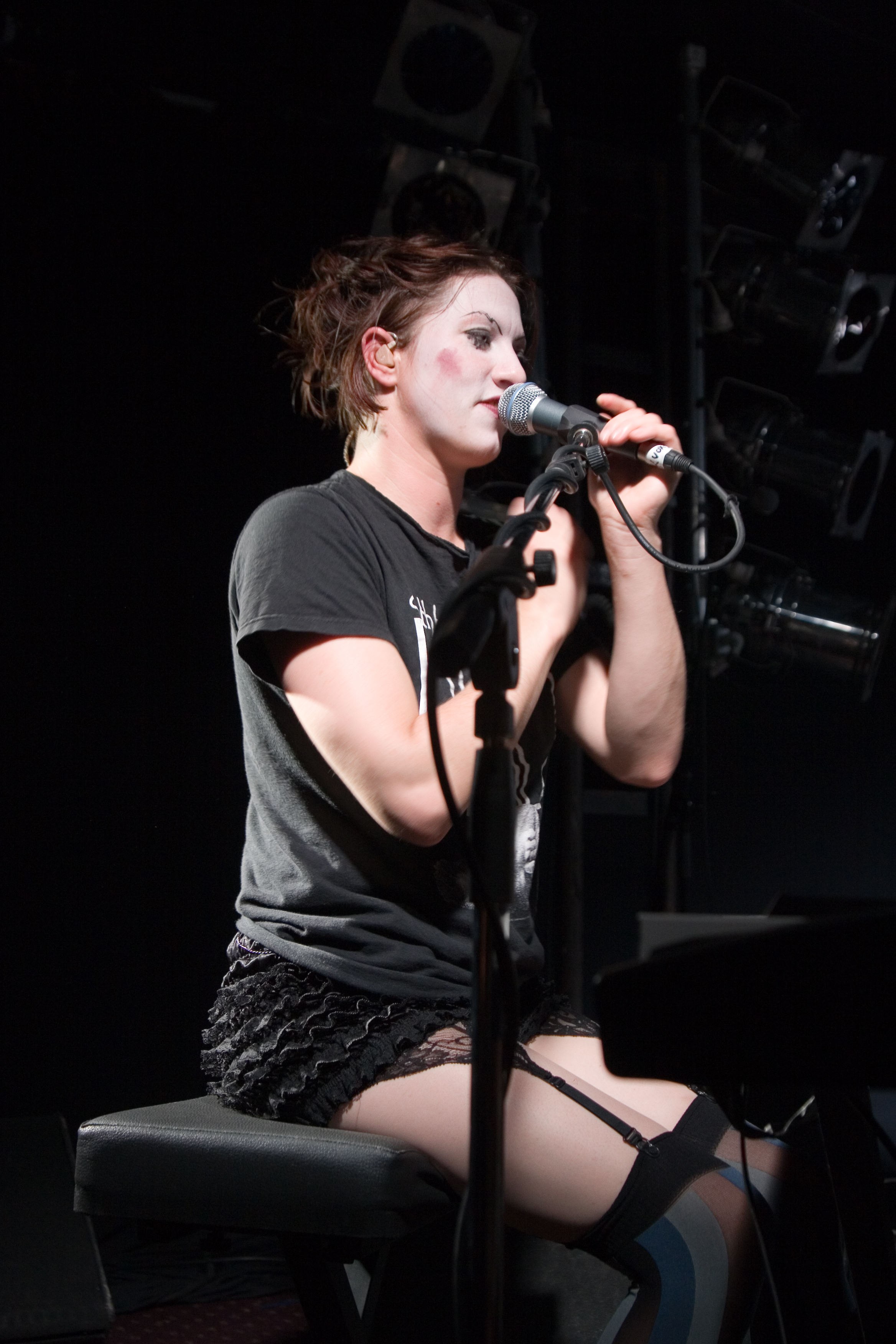 Amanda Palmer performing with The Dresden Dolls at Kings Arms Tavern in Auckland, New Zealand